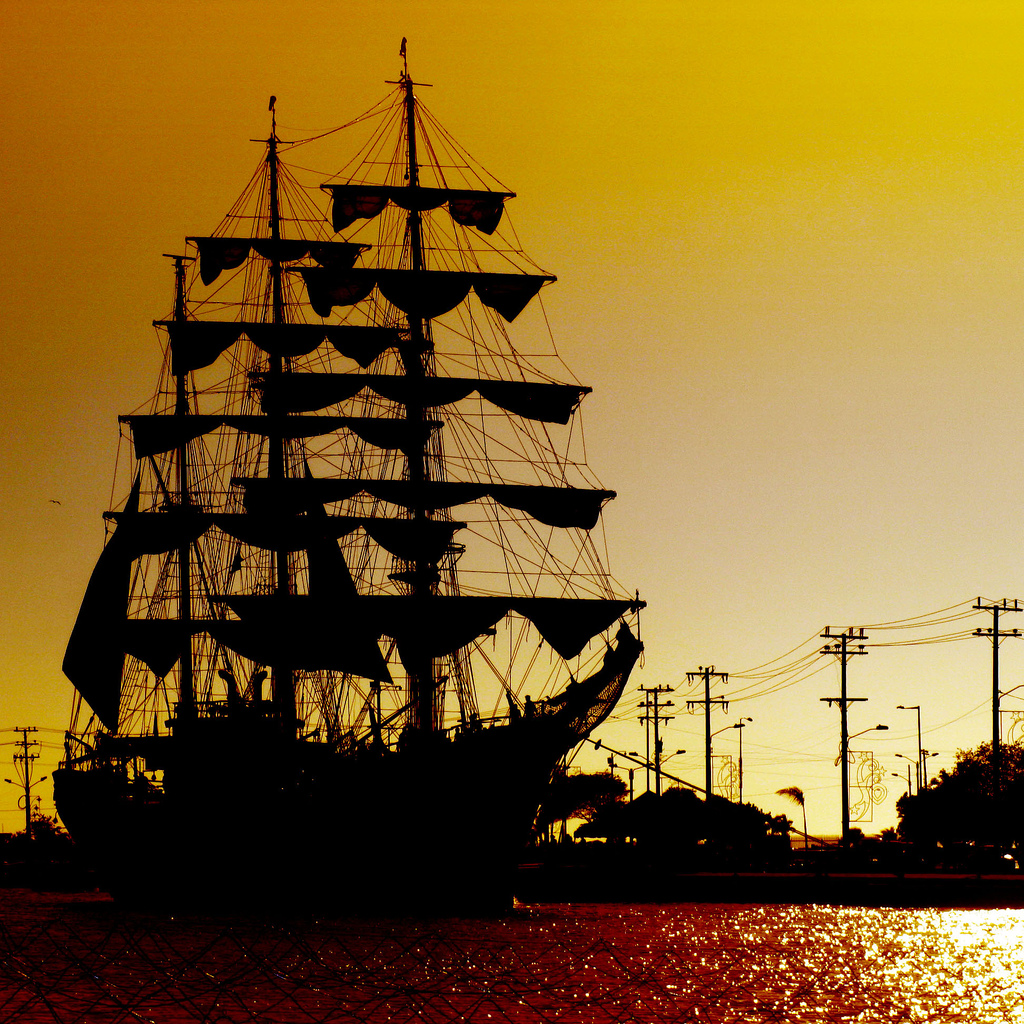 explore 210 on Saturday, January 12, 2008 Buque escuela GLORIA. Colombian Training Ship ARC "Gloria"